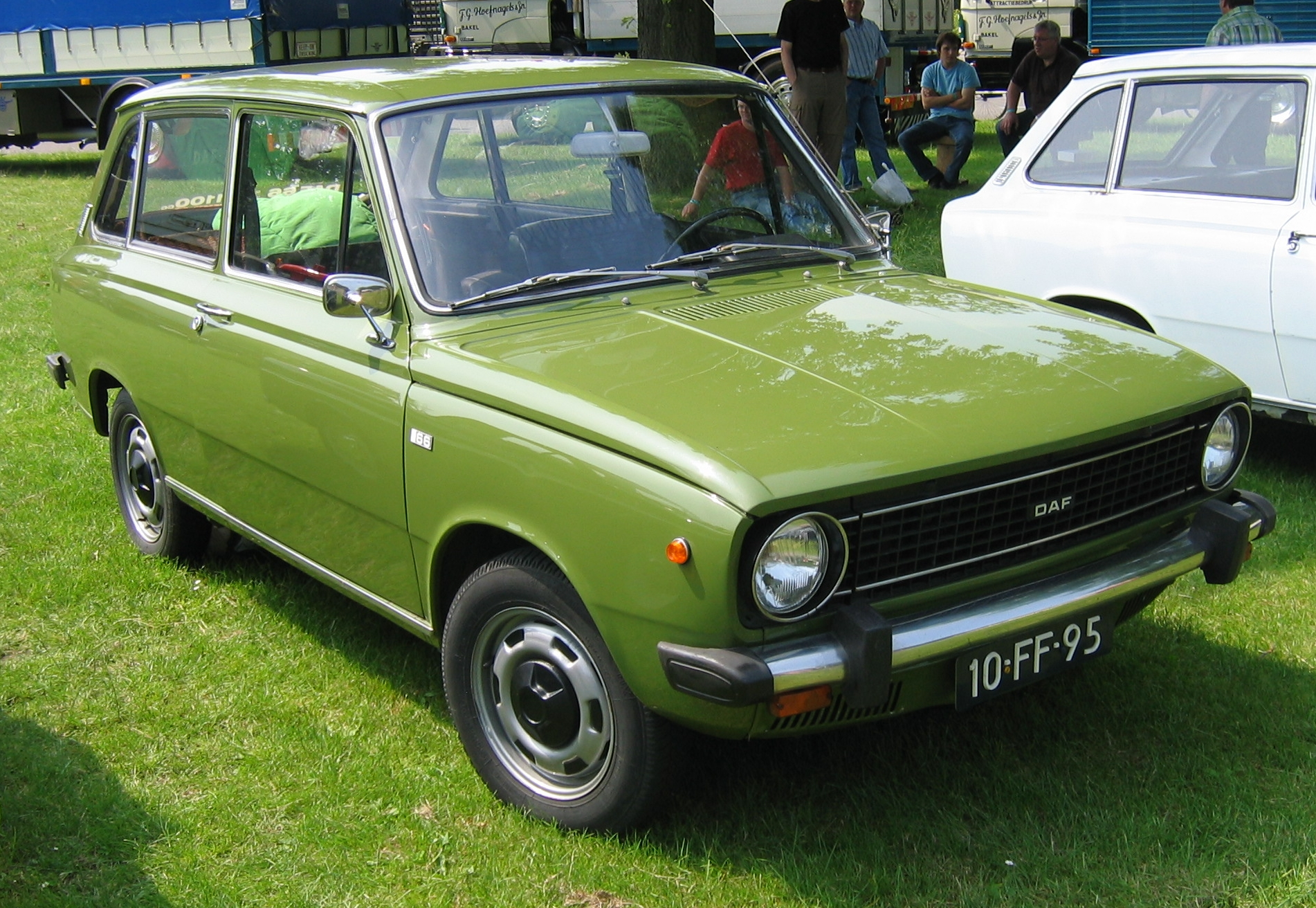 A DAF 66 at the DAF exposition during the Eindhoven Pole Position weekend.